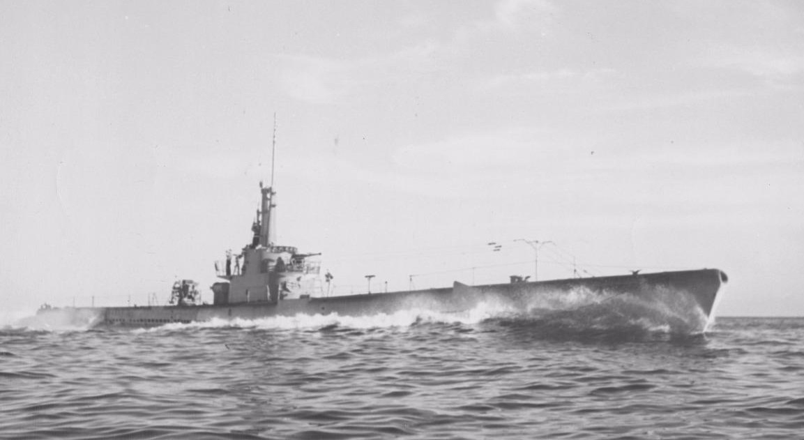 USS Blueback underway.